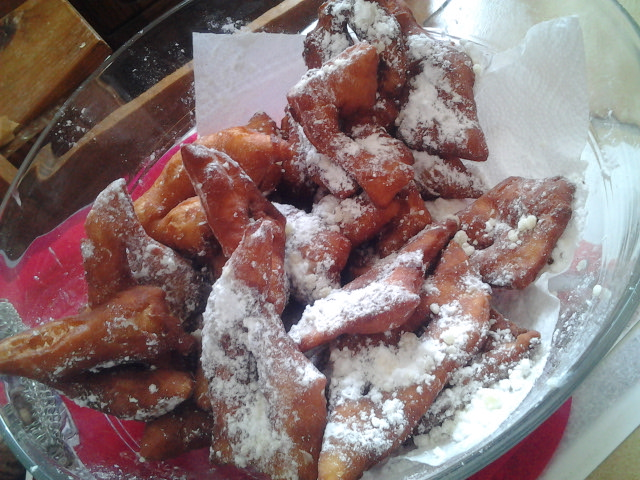 Bugnes in Dauphiné region France deep fried for Carnaval at Mardi Gras in February